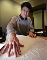 Photo of man using a tactile map